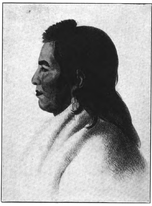 Mandan Indian Chief Shehaka